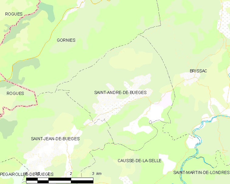 Map commune FR insee code 34238.png - Saint-André-de-Buèges